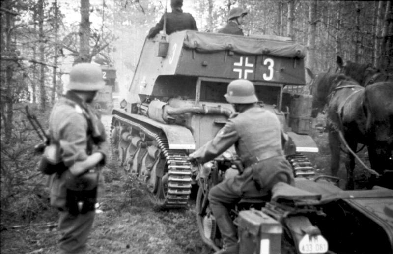 Information added by Wikimedia users.